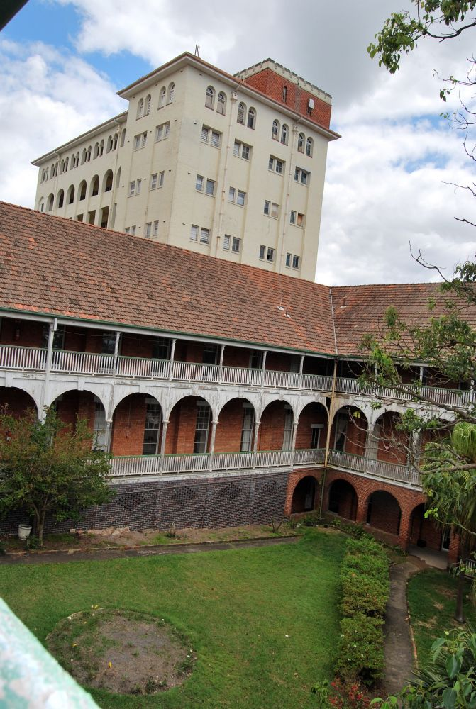 Lady Lamington in foreground, nurses quarters background (2008)